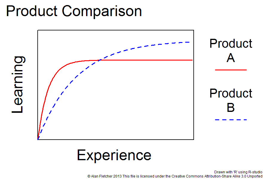 Learning Curve : Product comparison